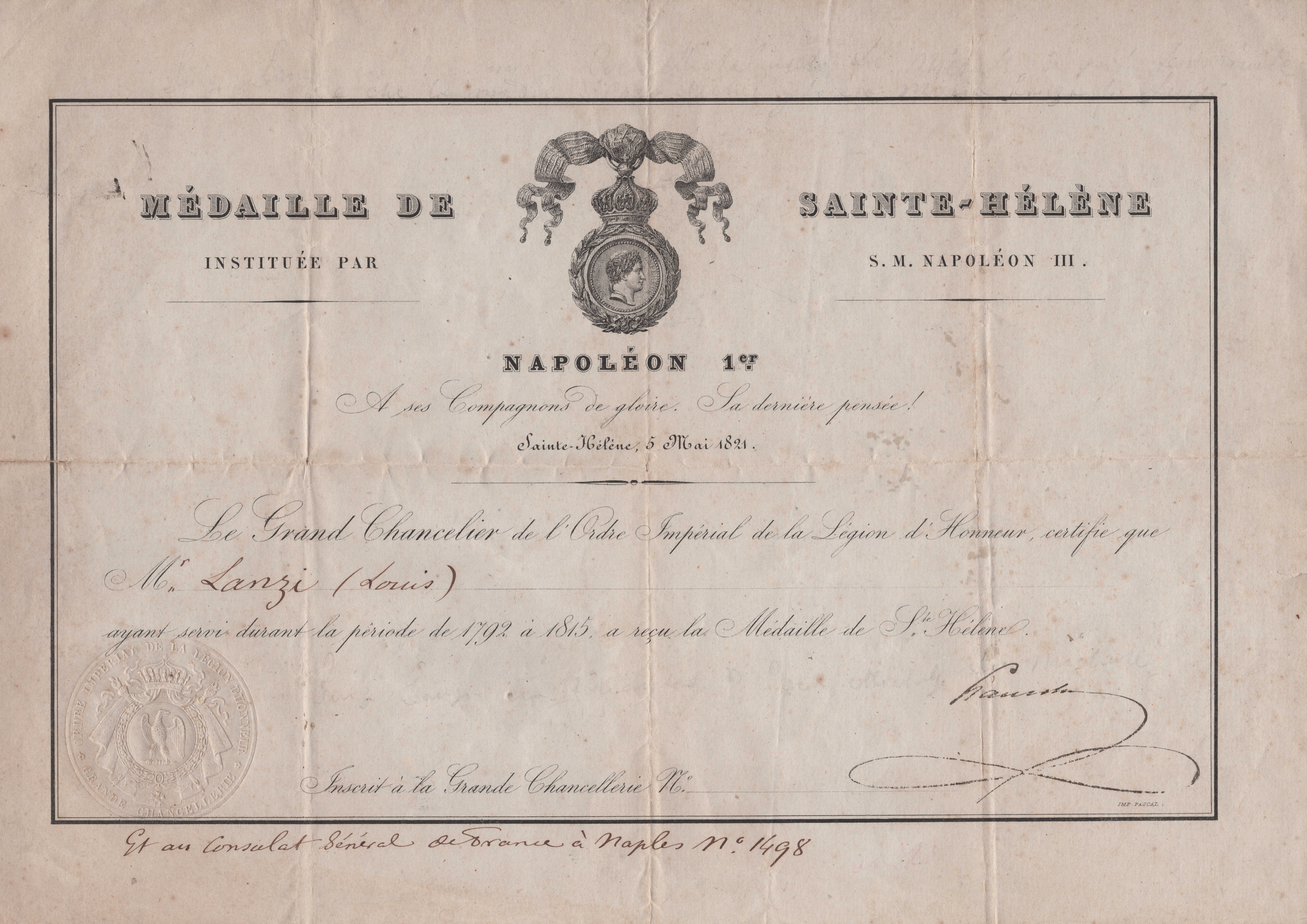 Certificate of a St Helena medal, given in Naples by the Consul General, to Luigi Lanzi born in Muro Lucano.